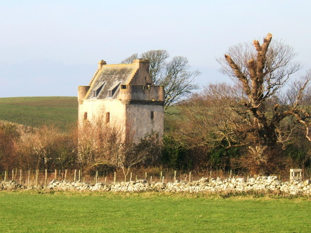 Craig Caffie Tower near Innermessan, Stranraer Craig Caffie Tower was built around 1580 near Innermessan, the former capital of the Rhins of Galloway.